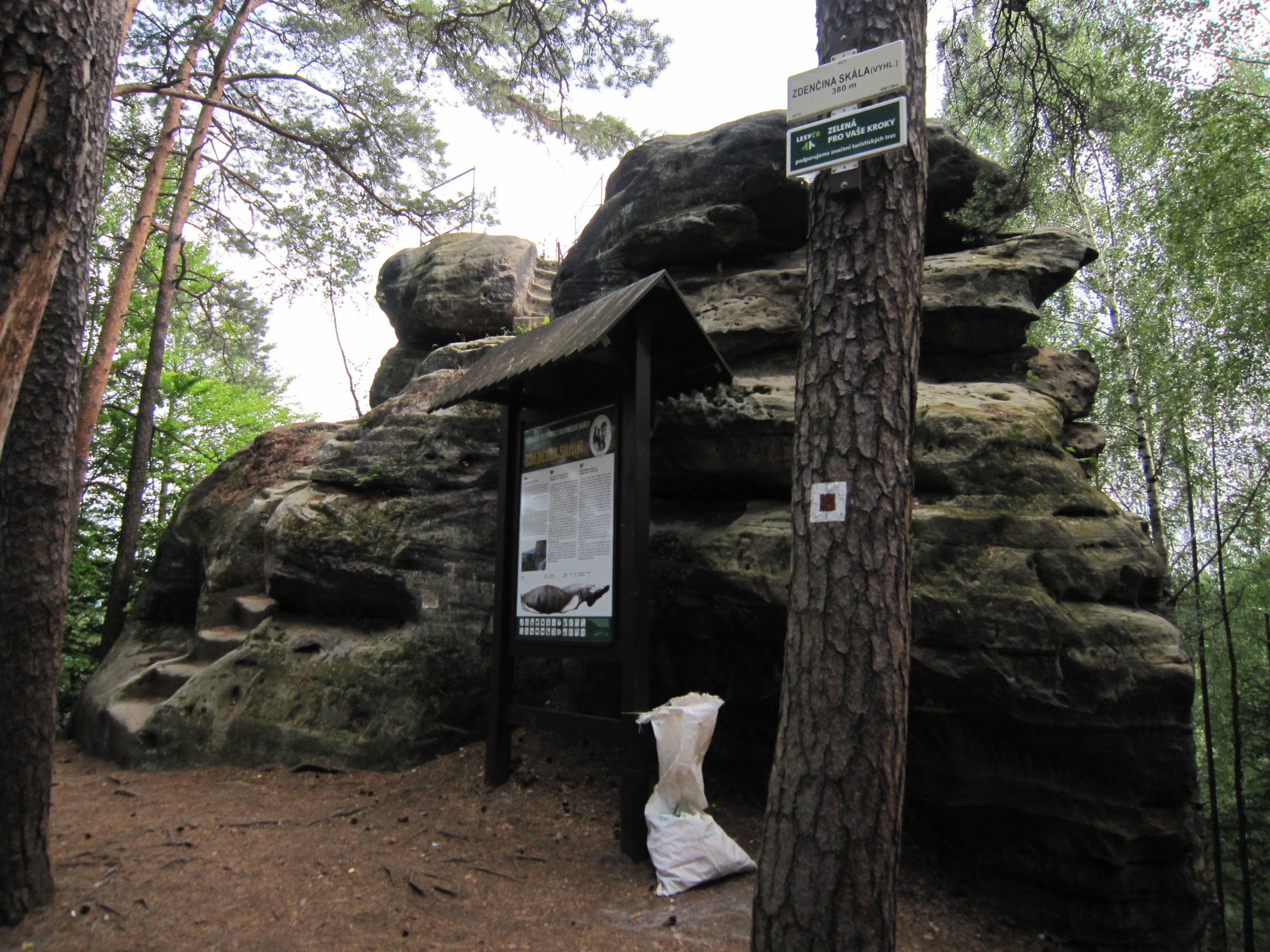 Rock with viewpoint and guidepost.